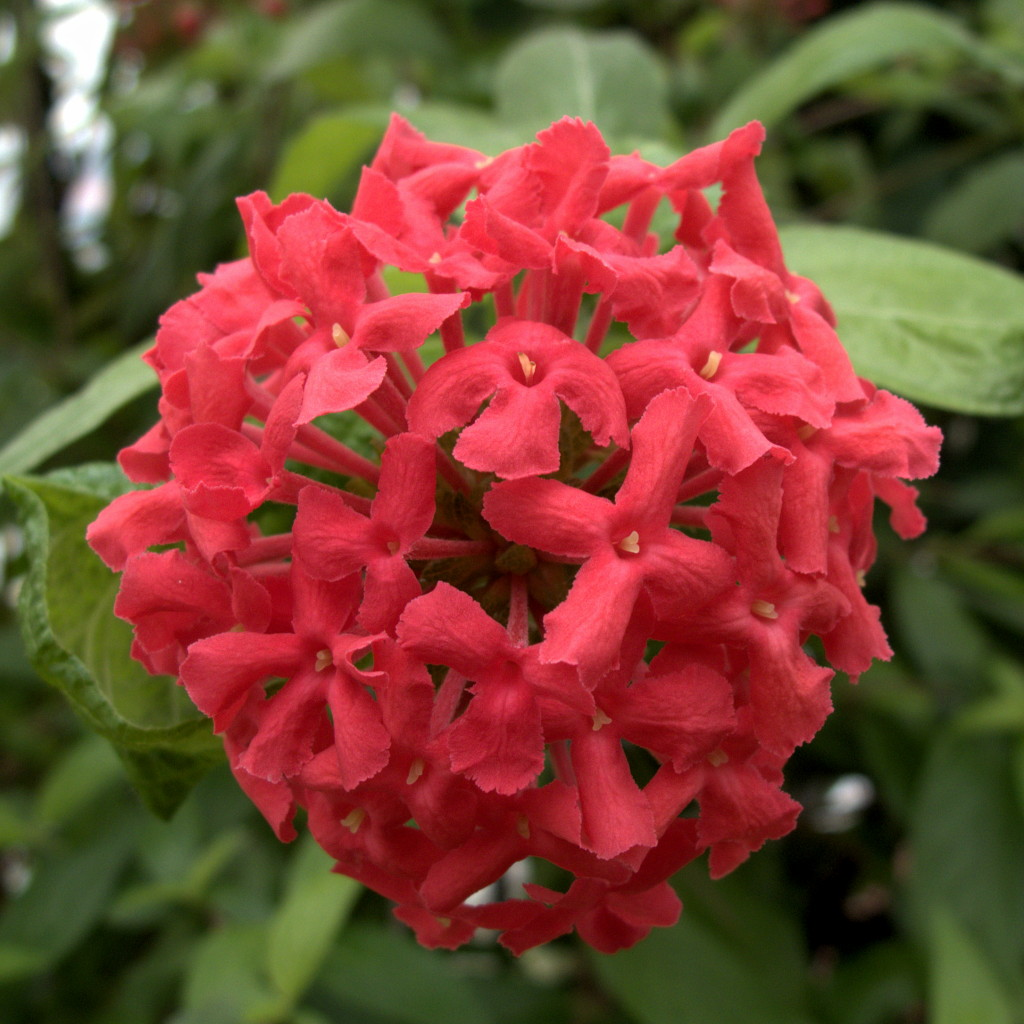 Arachnothryx leucophylla. Identified by sign.